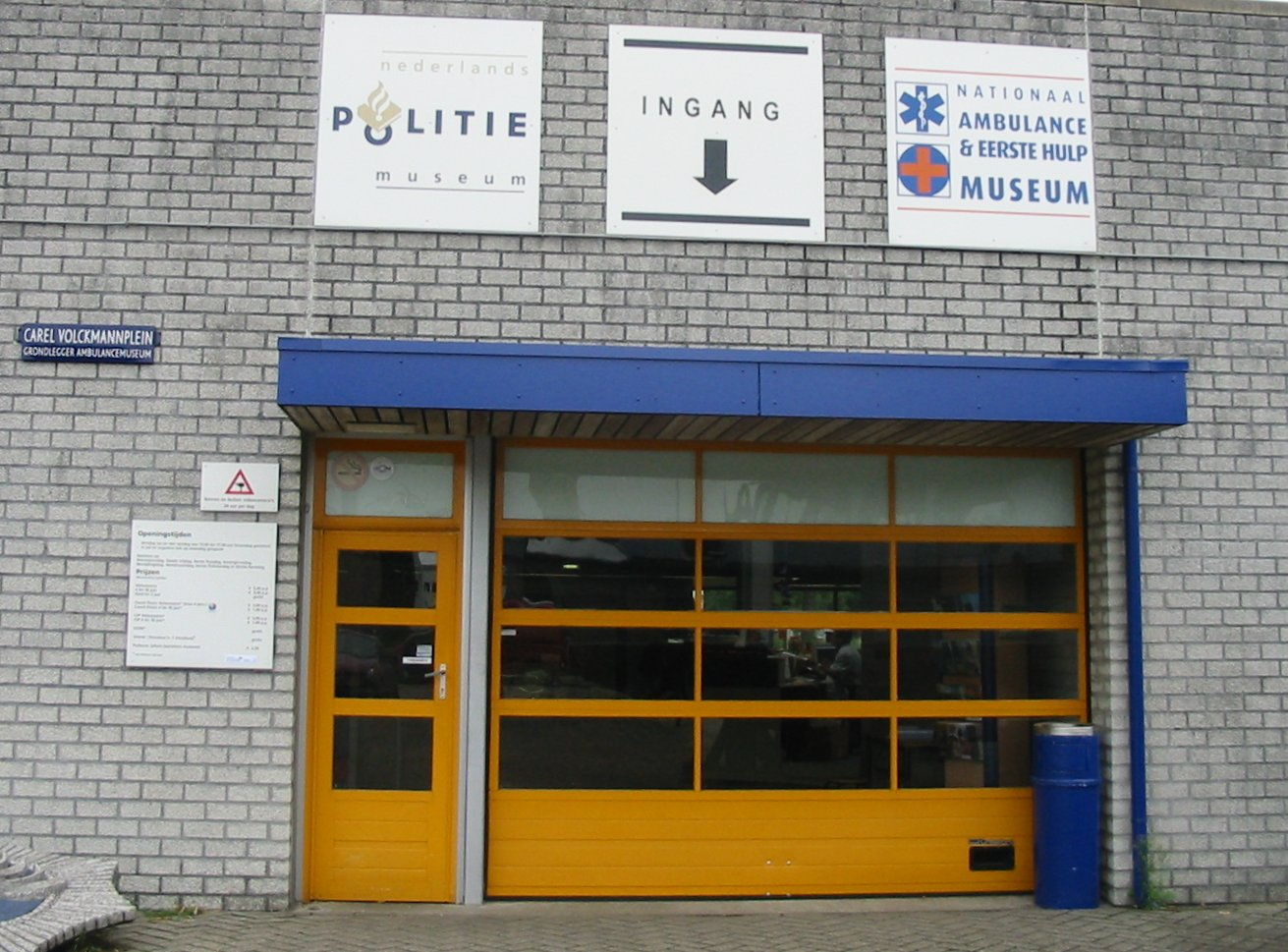 Entrance Dutch Police museum, Apeldoorn the Netherlands.